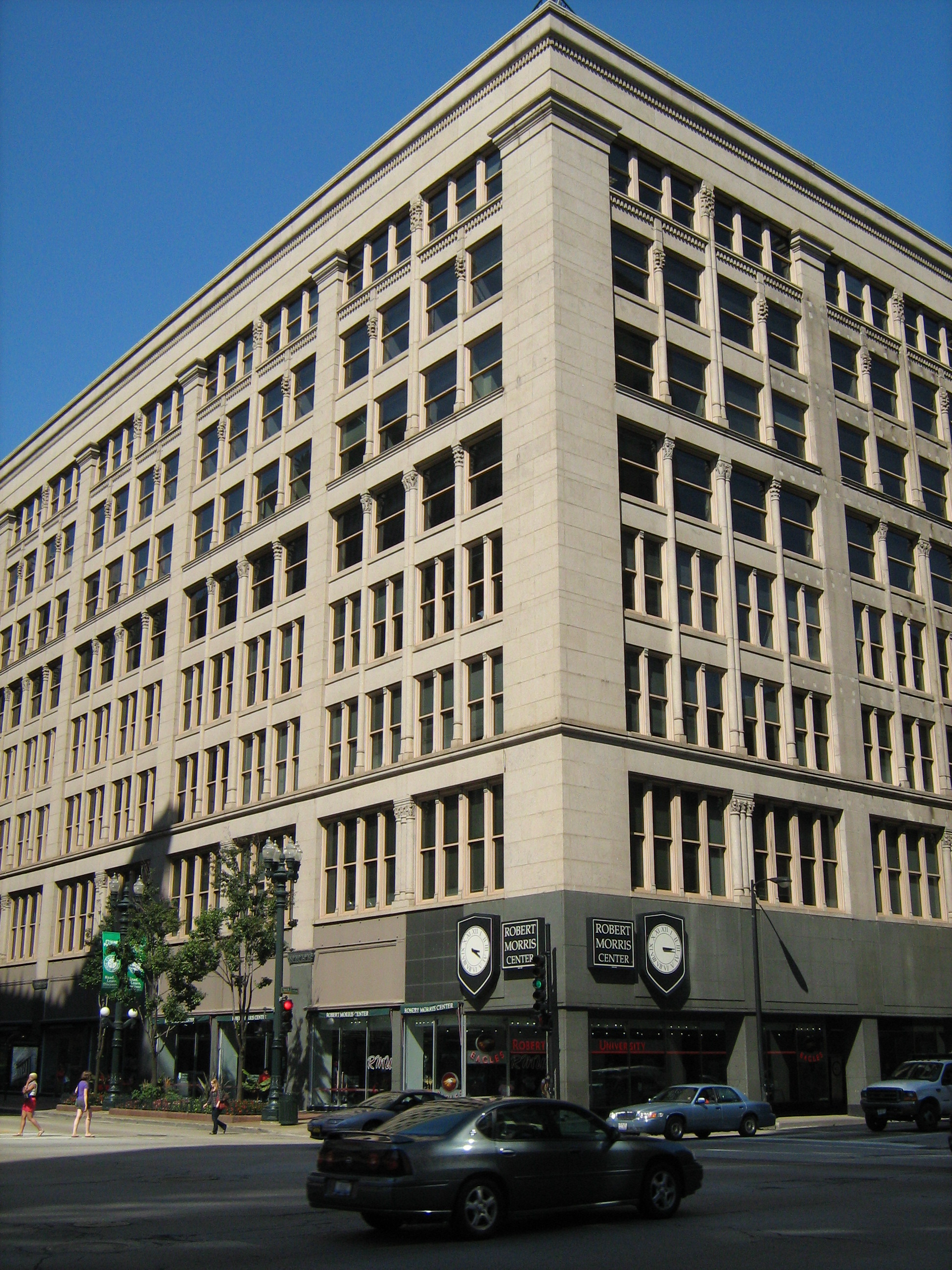 Leiter II Building Camera: Canon PowerShot A460 License on Flickr (2011-02-16): CC-BY-SA-2.0 Flickr tags: Chicago, Cook County